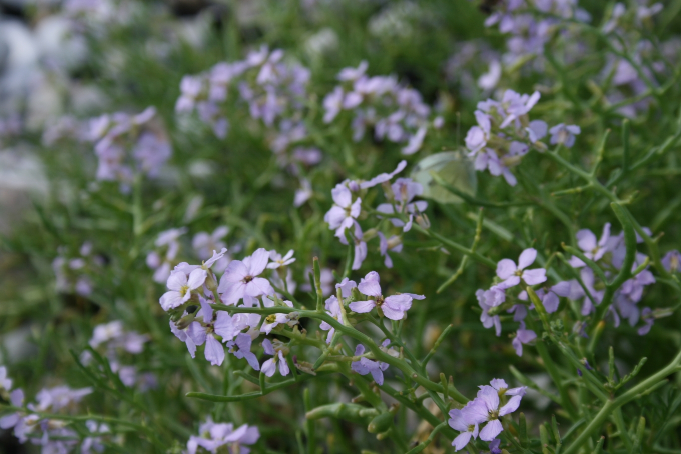 Lepidium spp: Flowers